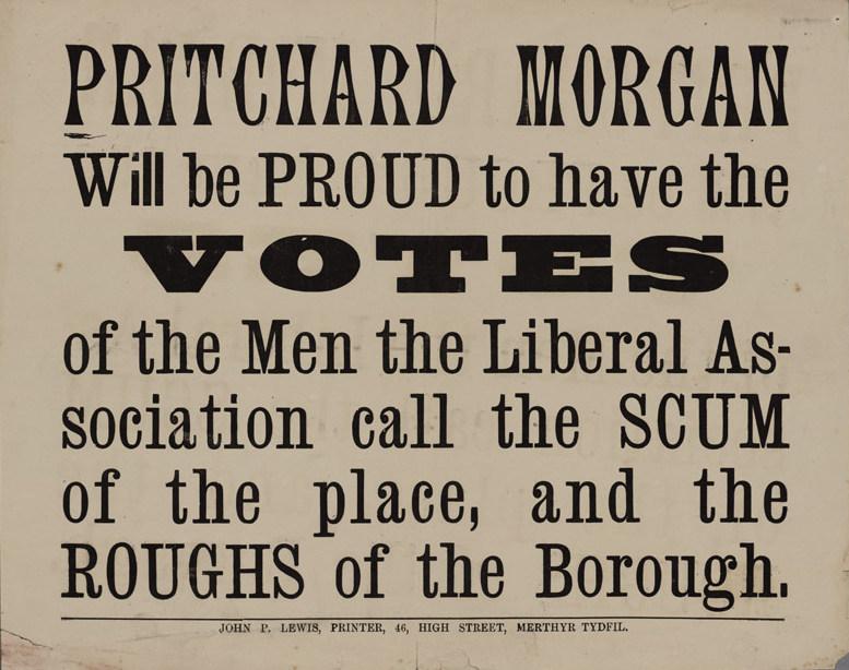 "Pritchard Morgan Will be Proud to have the Votes" Political propaganda by William Pritchard Morgan M.P.